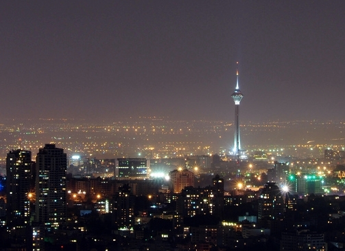 Image of Tehran, Iran.